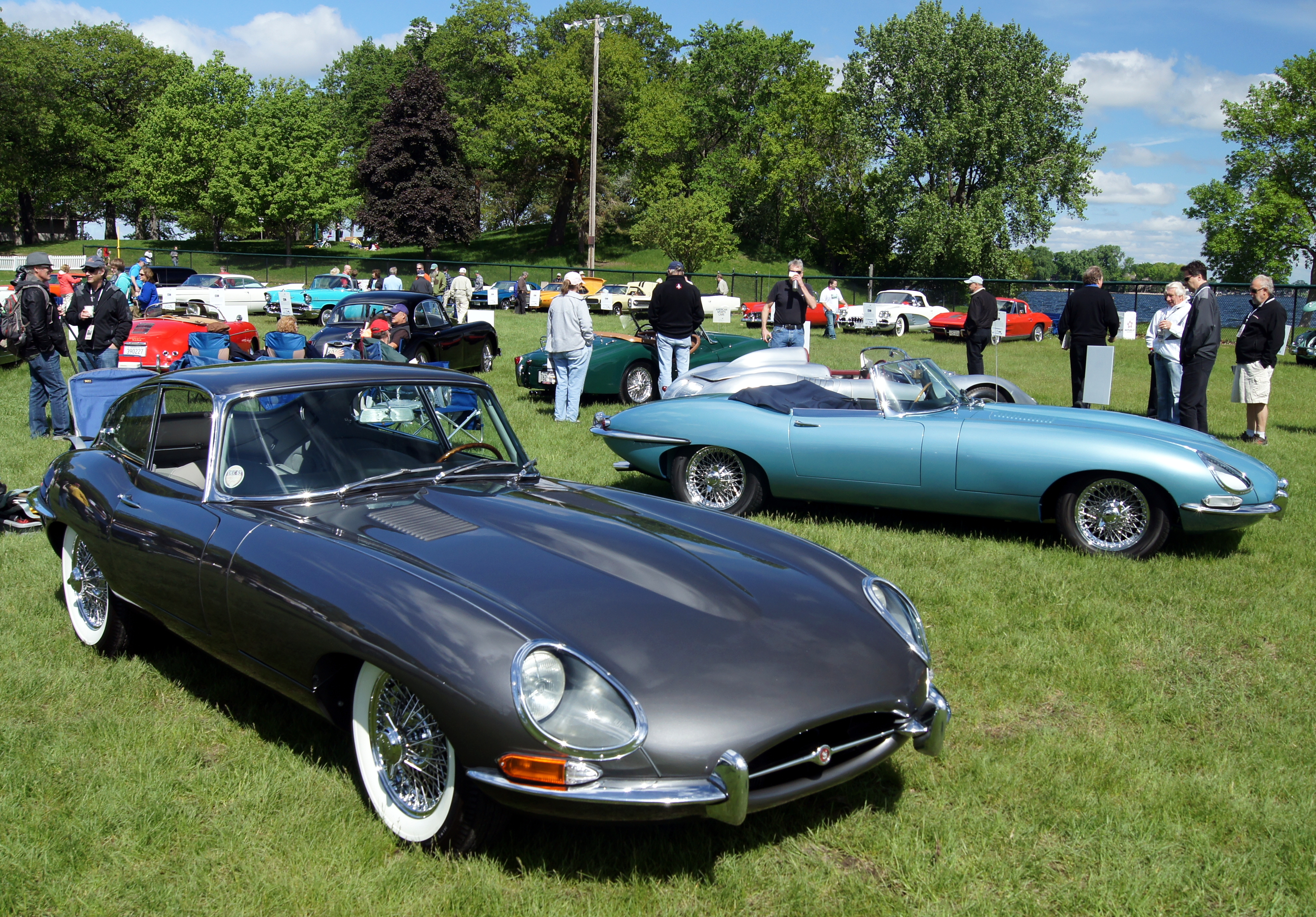 62 & 61 Jaguar E-Type